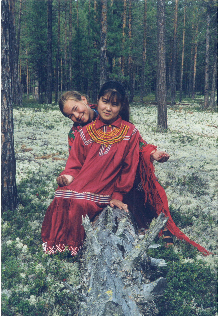 Khanty girls